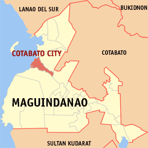 Map of the Maguindanao showing the location of Cotabato City